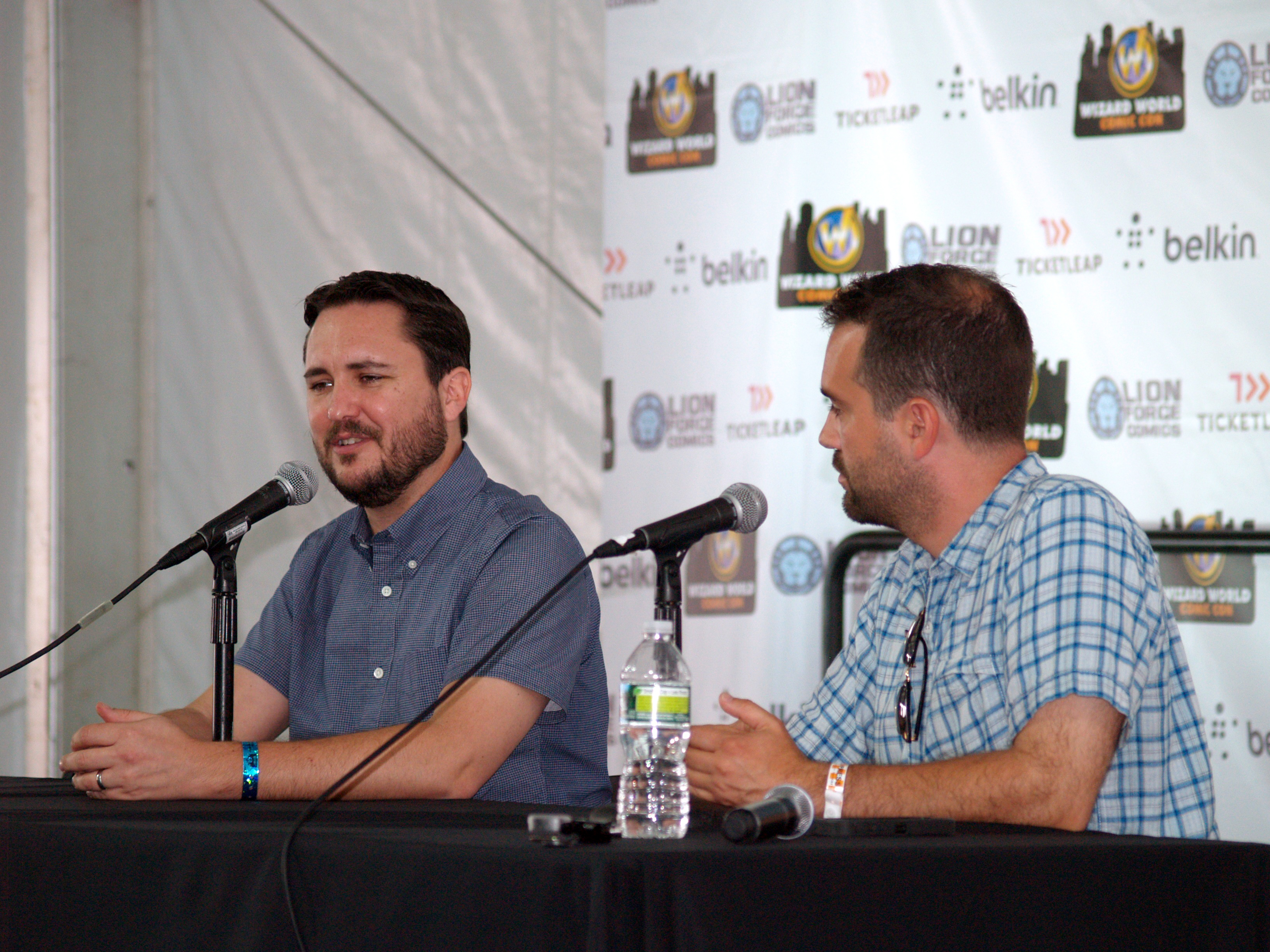 Actor Wil Wheaton (left) during a June 30, 2013 Q&A panel at the 2013 Wizard World New York Experience Comic Con in Manhattan. At right is CNN and MTV correspondent Aaron Sagers, moderating the panel. This photo was created by Luigi Novi. It is not in the public domain, and use of this file outside of the licensing terms is a copyright violation.